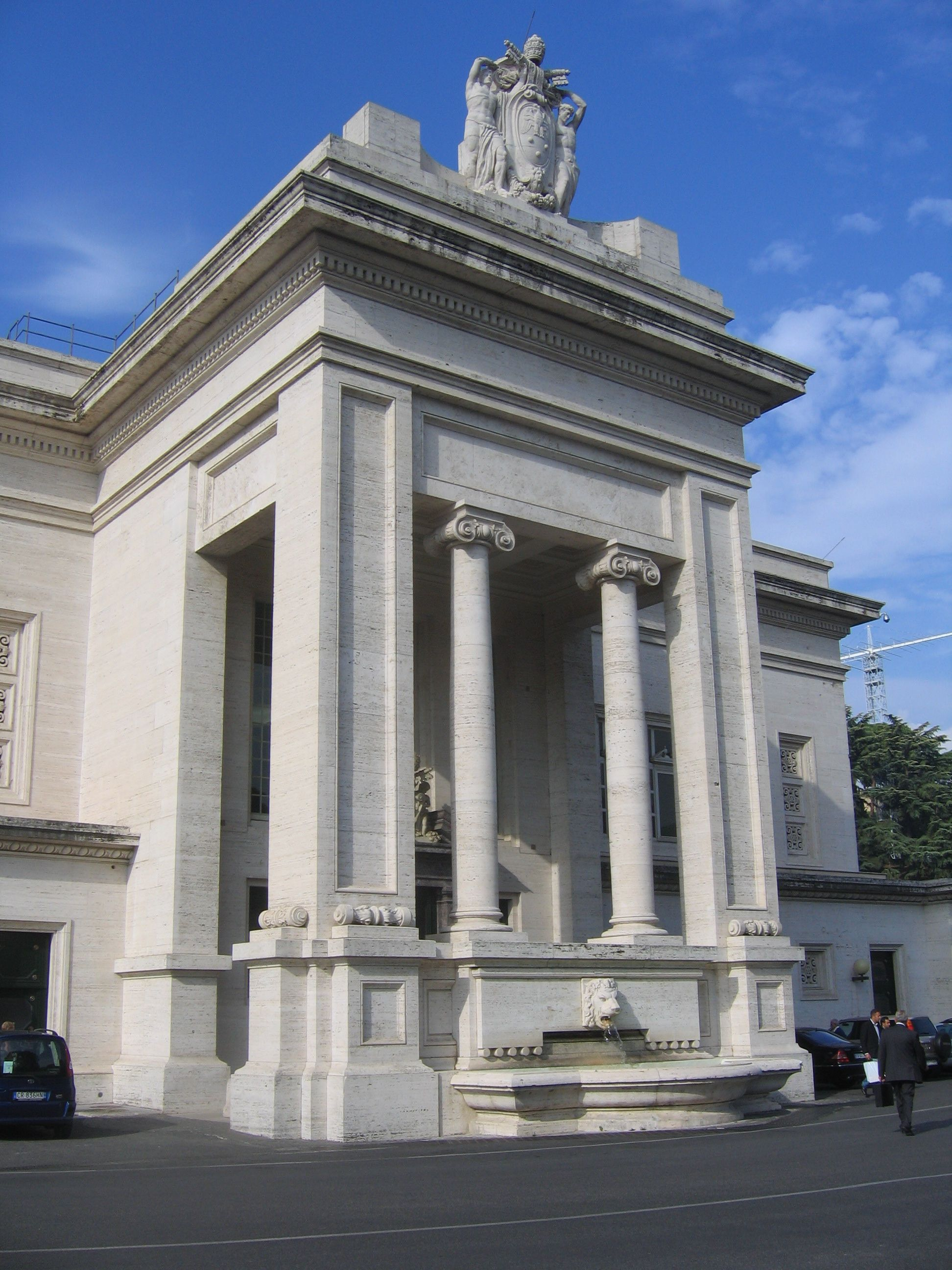 Vatican railway station - Frontside